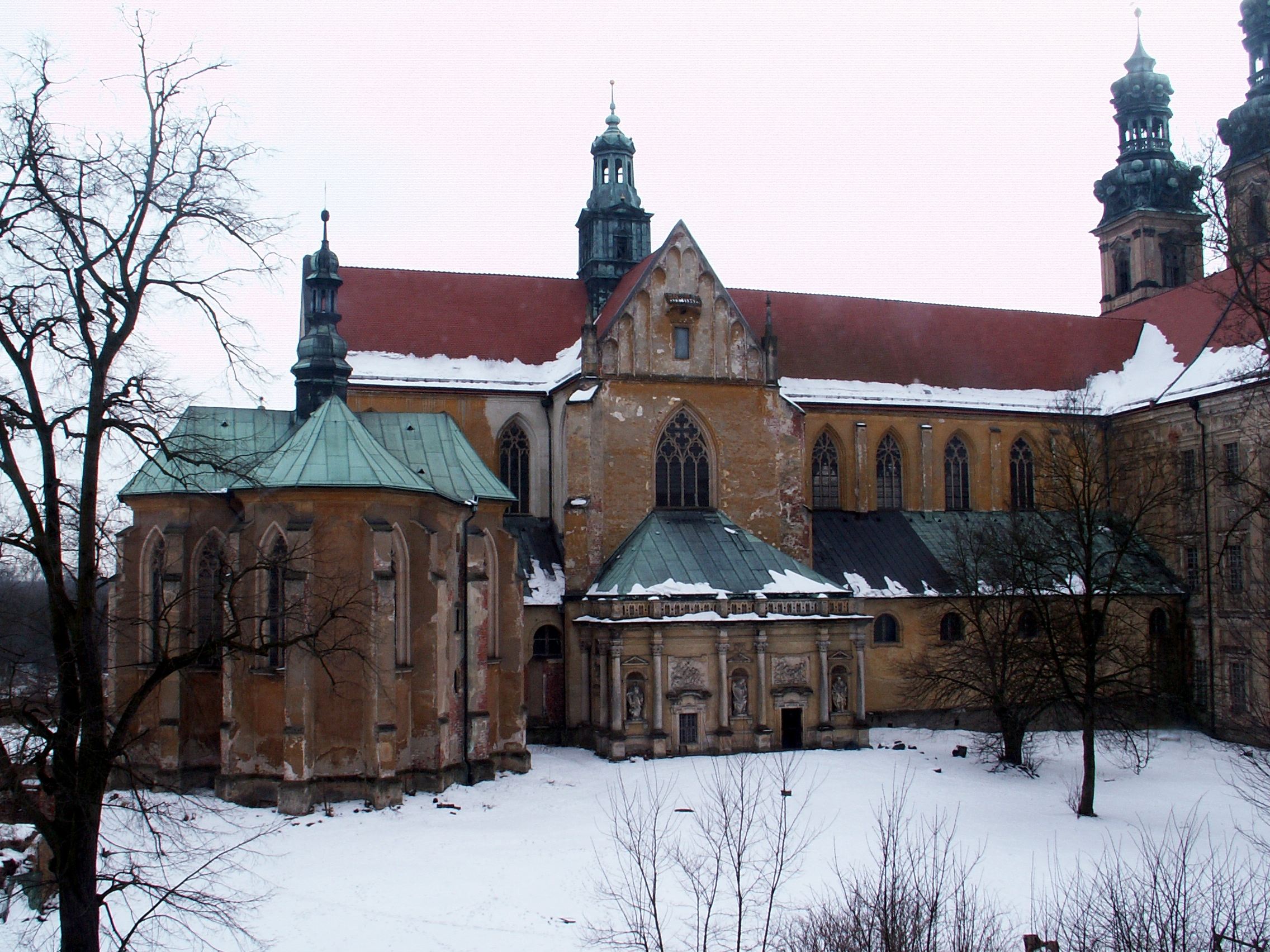 View on basilica from prince room